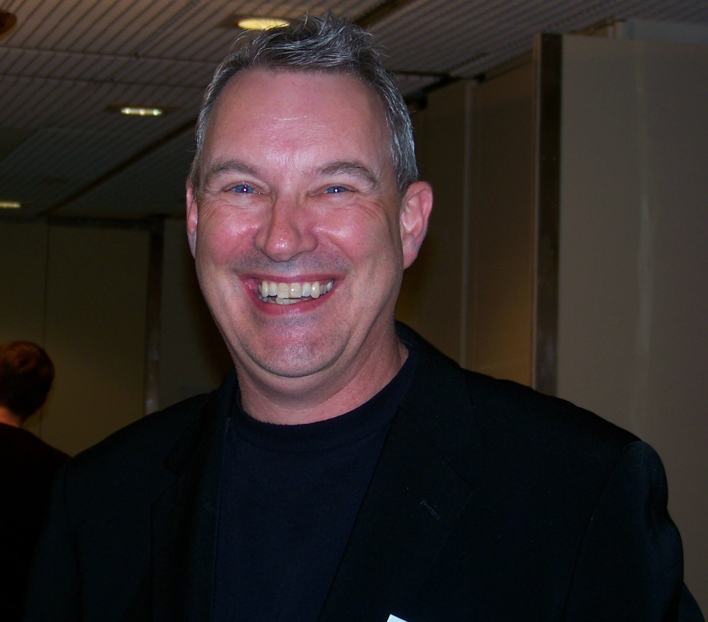 John Lenahan a magician, comedian, entertainer and writer. His first novel being Shadowmagic.